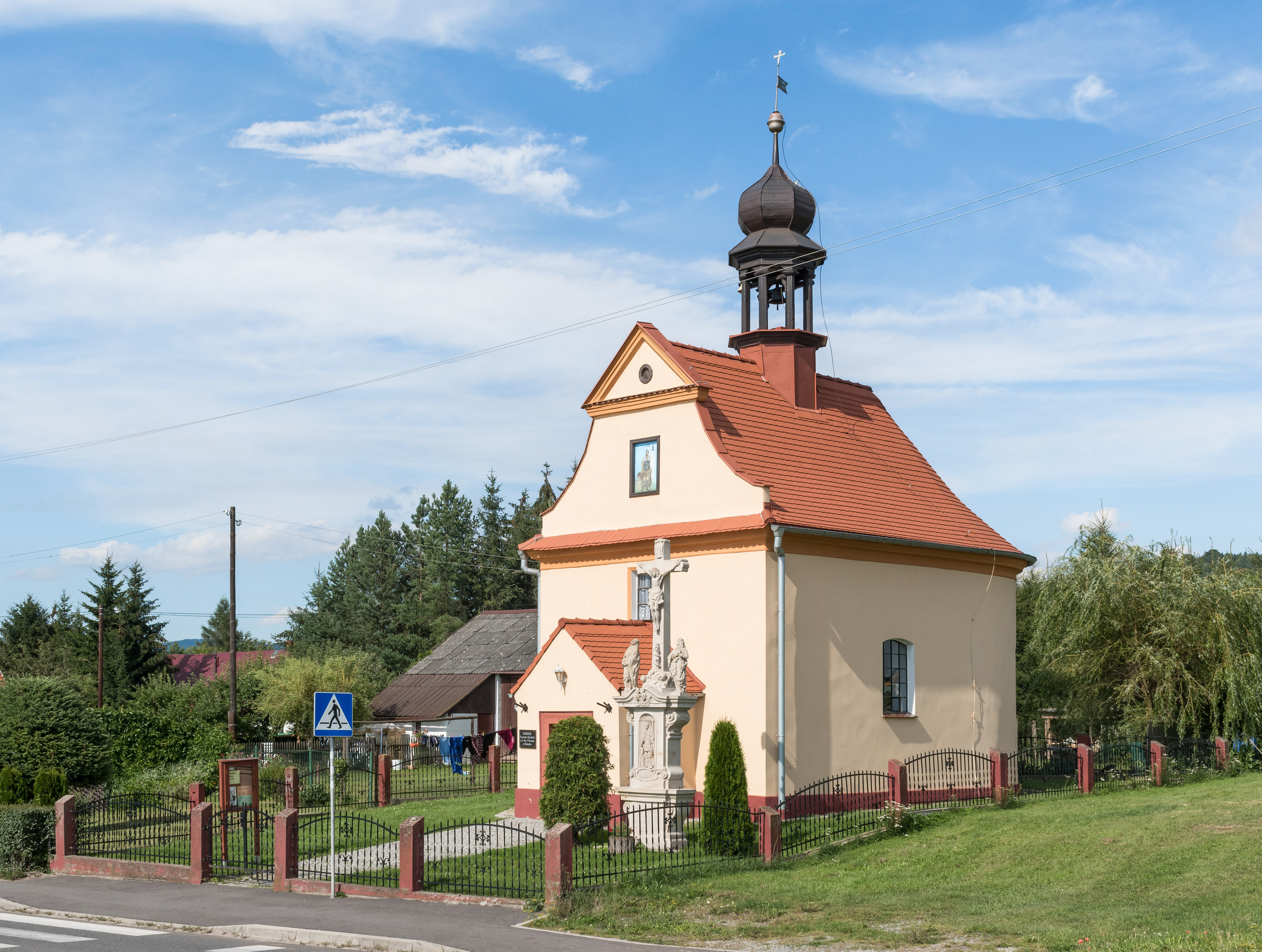 Saint Florian church in Święcko